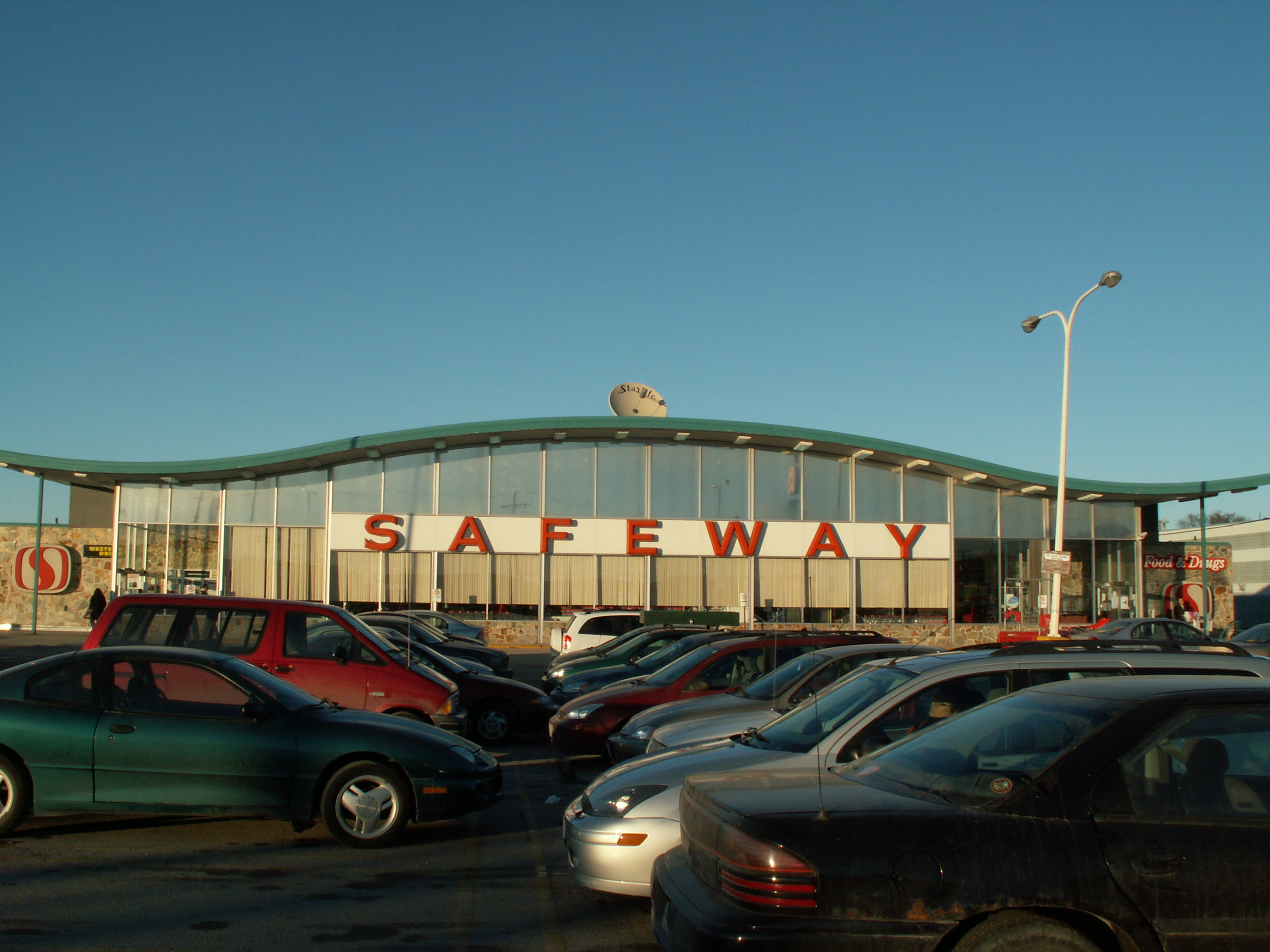 The soon to be closed Safeway at Ellice Avenue and Wall Street in Winnipeg, Manitoba.